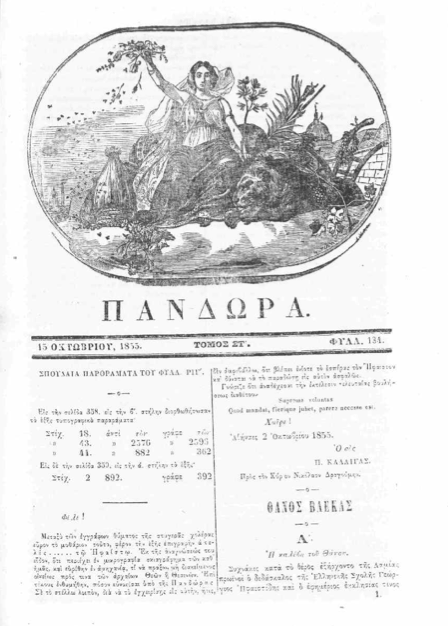 Magazine "Pandora", 15. Okt. 1855, Nr. 134. "Thanos Vlekas" Pavlos Kalligas